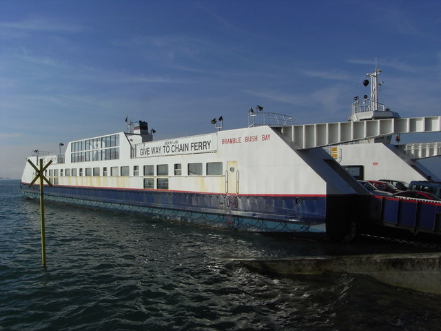 Sandbanks ferry has just arrived A diesel powered chain ferry.